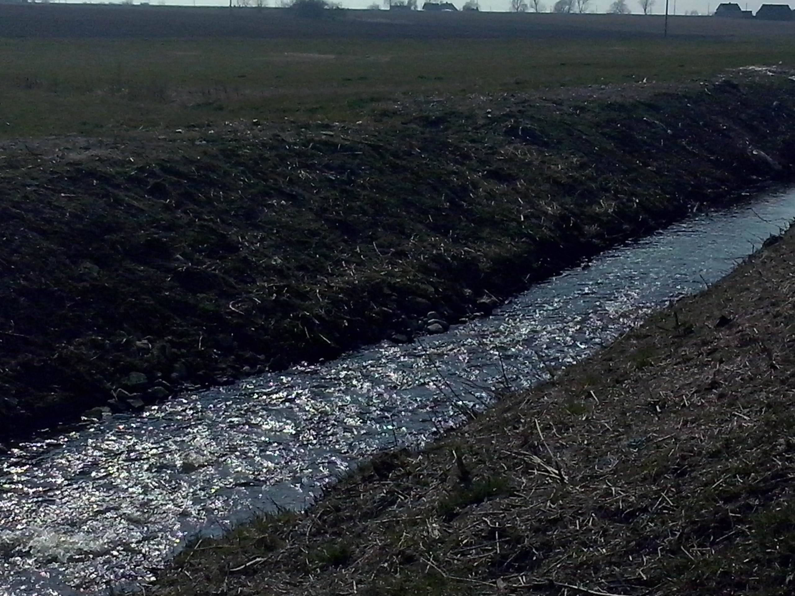 Rgilewka River in Cząstków